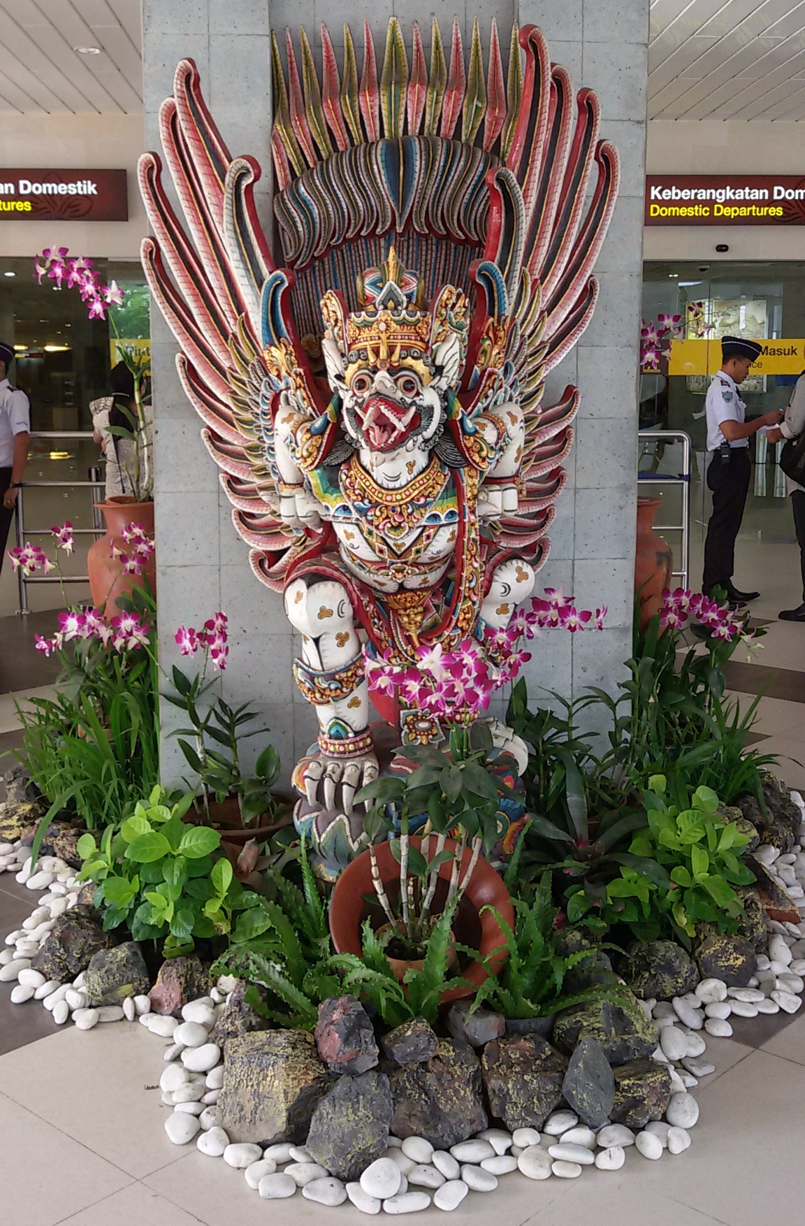 Balinese garuda statue at Ngurah Rai Airport (2016)